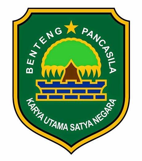 Lambang (Coat of Arms) of Kabupaten (Regency) of Subang, Provinsi Jawa Barat (West Java Province), Indonesia